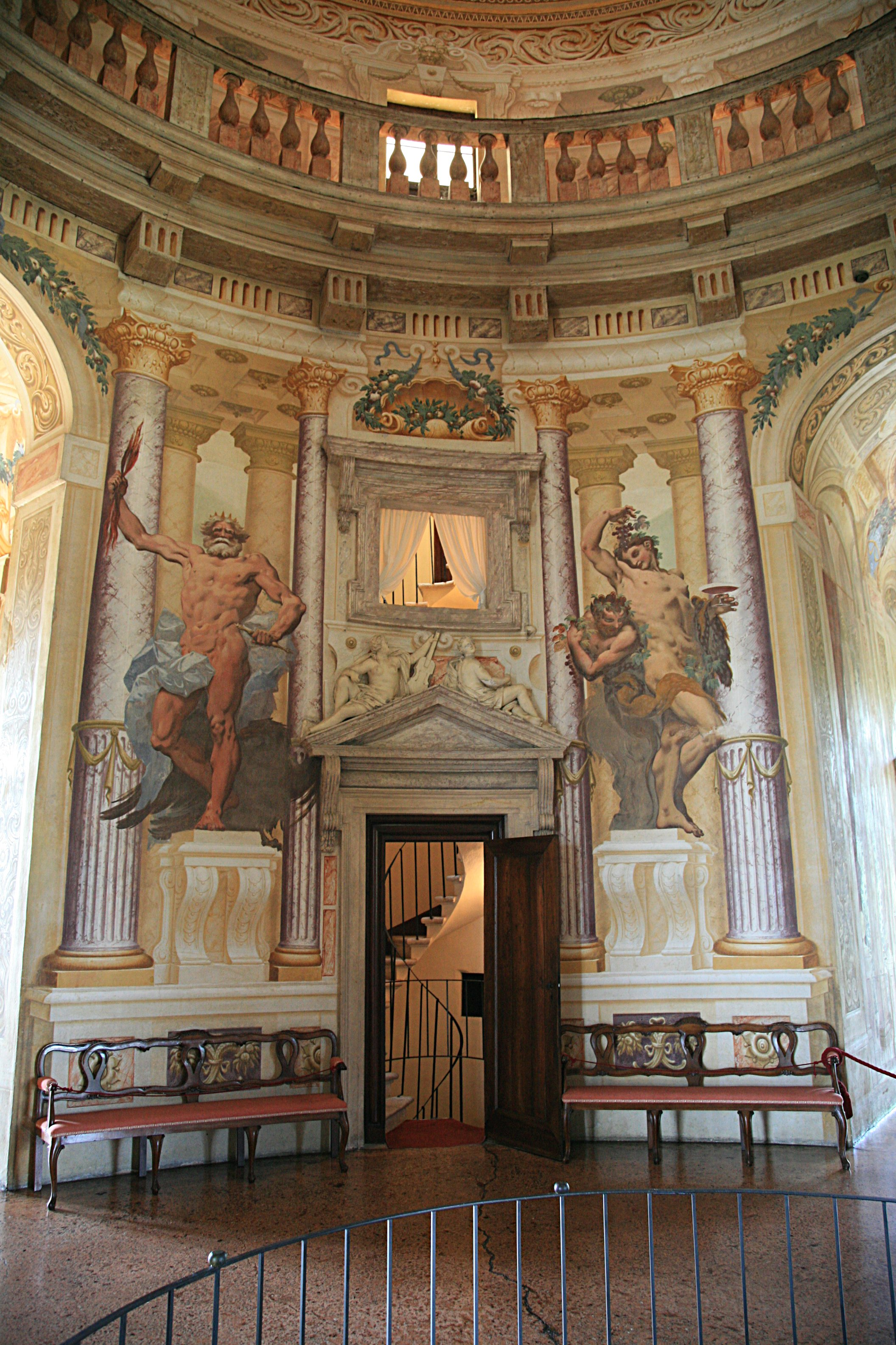 Interiour from La Rotunda by Andrea Palladio